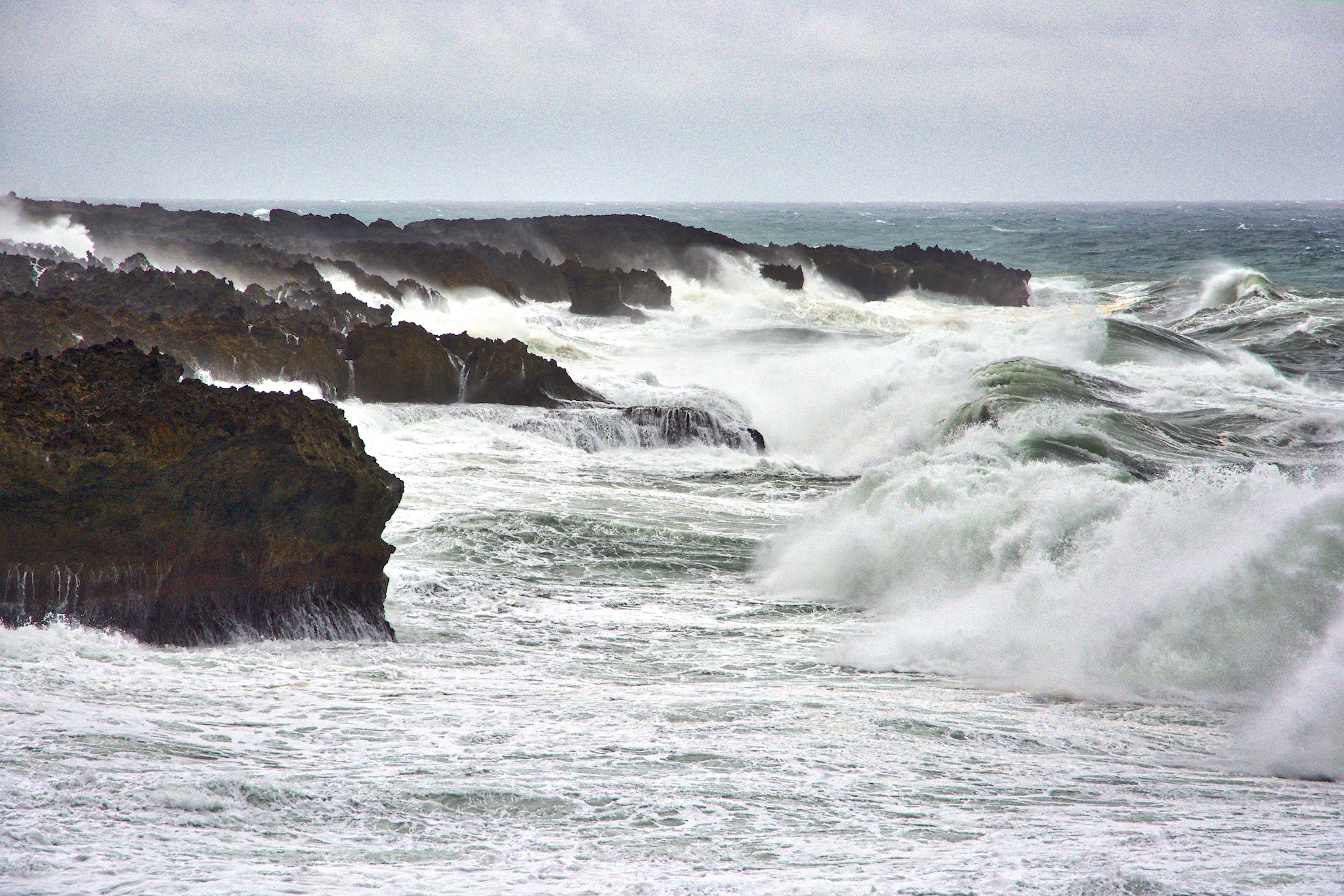 Waves crash against rocks on Cape Bojeador, affected by Typhoon Lando